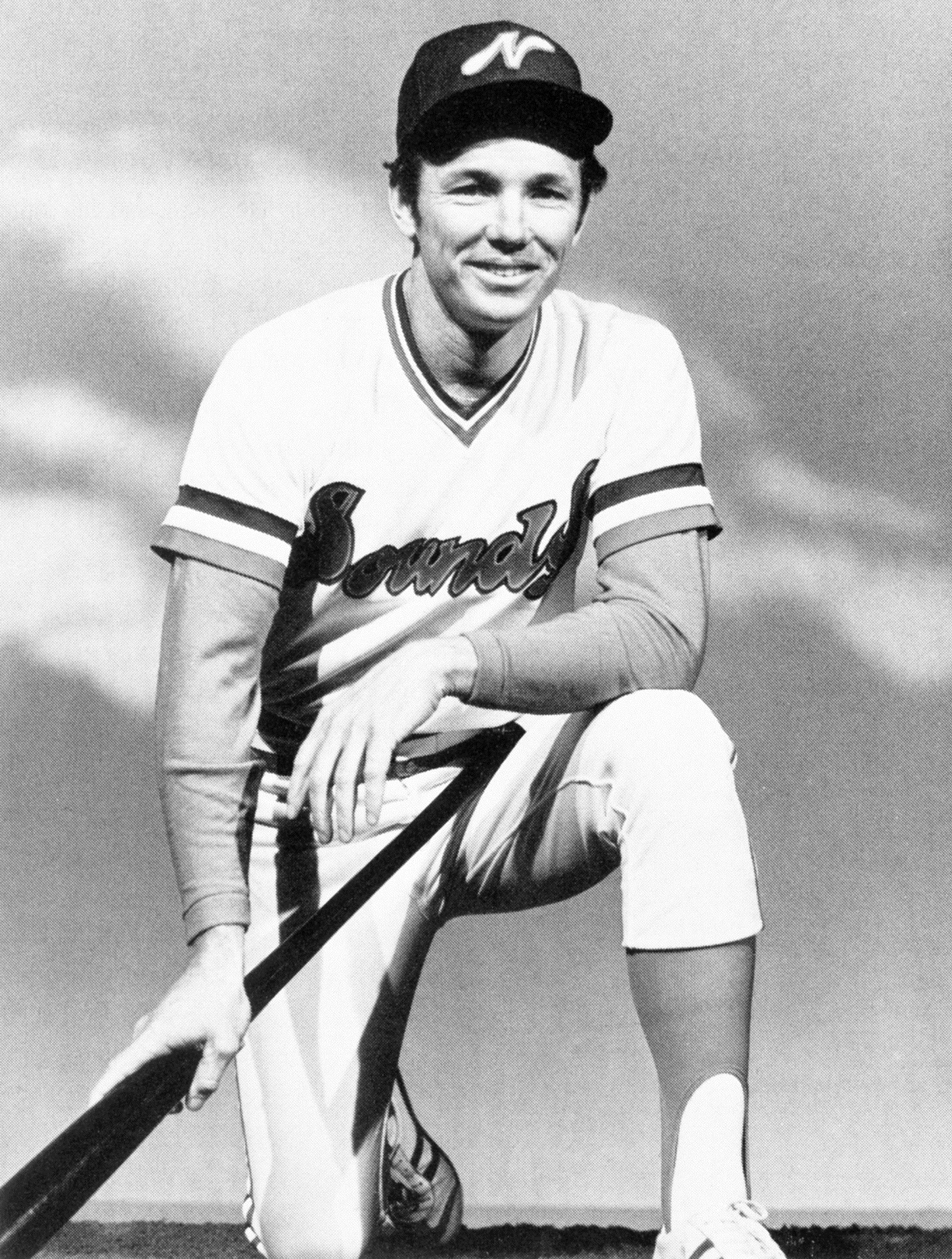 Manager Chuck Goggin of the 1978 Nashville Sounds Minor League Baseball team of the Southern League